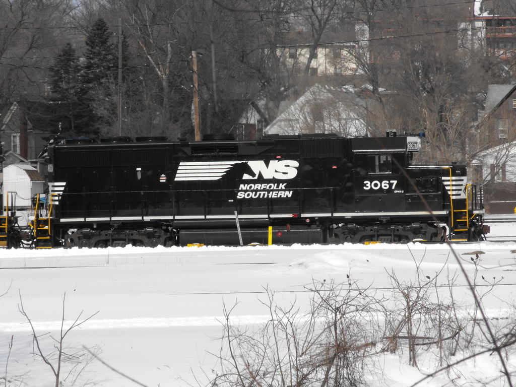 Kalamazoo, Michigan NS Loco No.3067